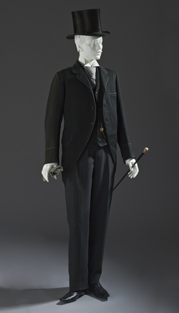 England, circa 1880 Costumes Wool twill with wool braid trim Purchased with funds provided by Michael and Ellen Michelson (M.2010.33.15a-b) Costume and Textiles